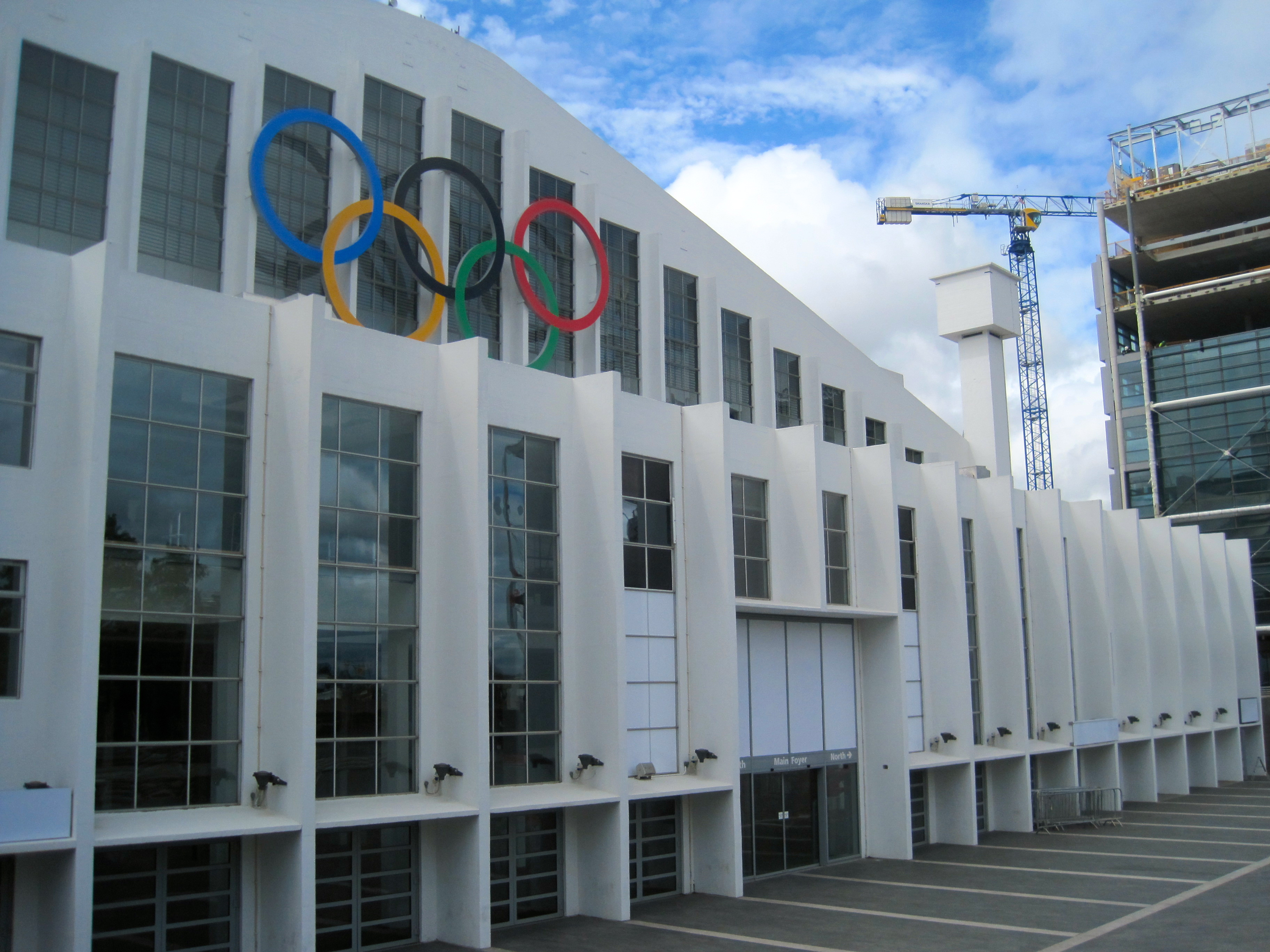 Wembley regeneration Jul 2012: Wembley Arena with Olympic rings